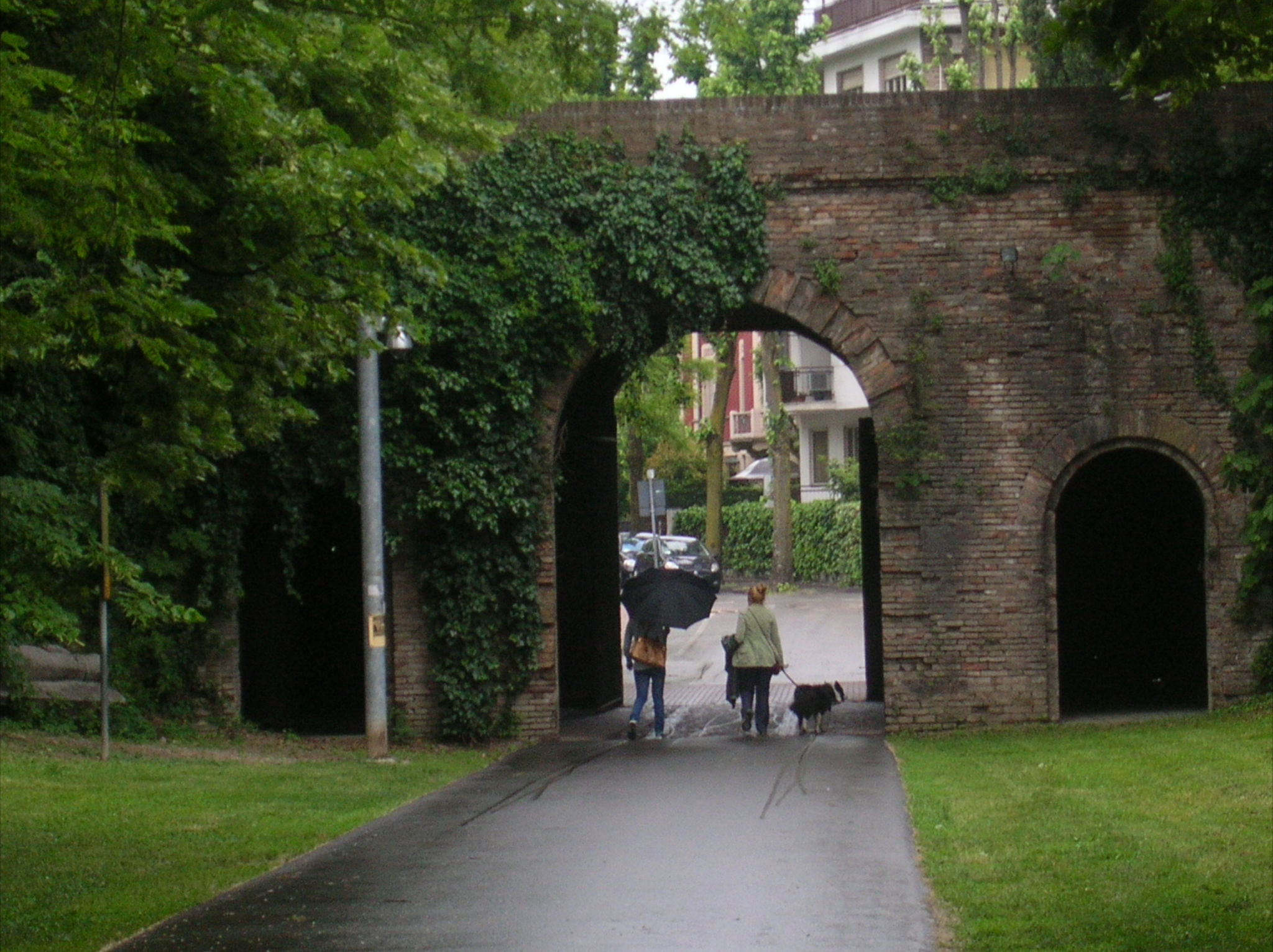 Entry of Parma's Citadel.